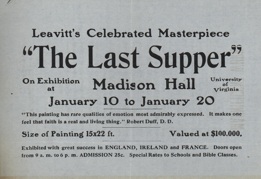 Photograph of printed flier advertising the exhibition of the large painting, "The Last Supper" by American artist William Homer Leavitt. Leavitt's painting, executed in Europe, traveled American on the Chautaqua circuit. This flier advertises its exhibtion at Madison Hall, University of Virginia, Charlottesville, Virginia, January 10–20, 1911. Courtesy of the Redpath Chautauqua Collection, University of Iowa Libraries.